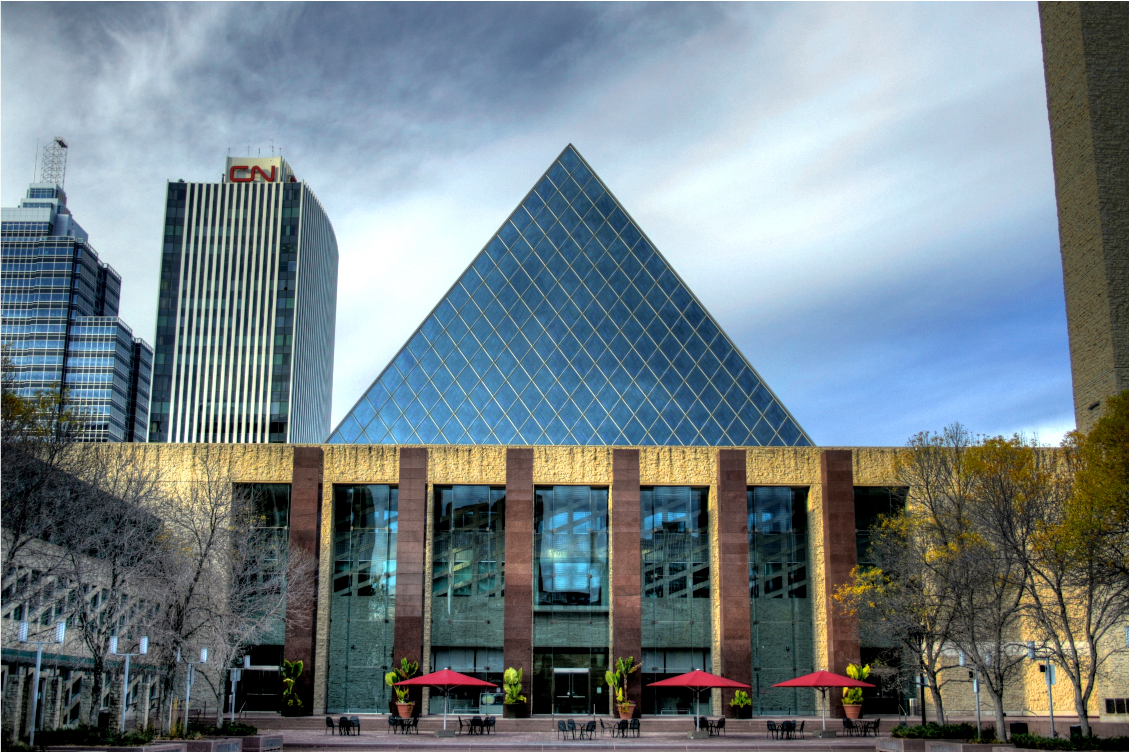 South face of Edmonton's City Hall in Alberta, Canda.